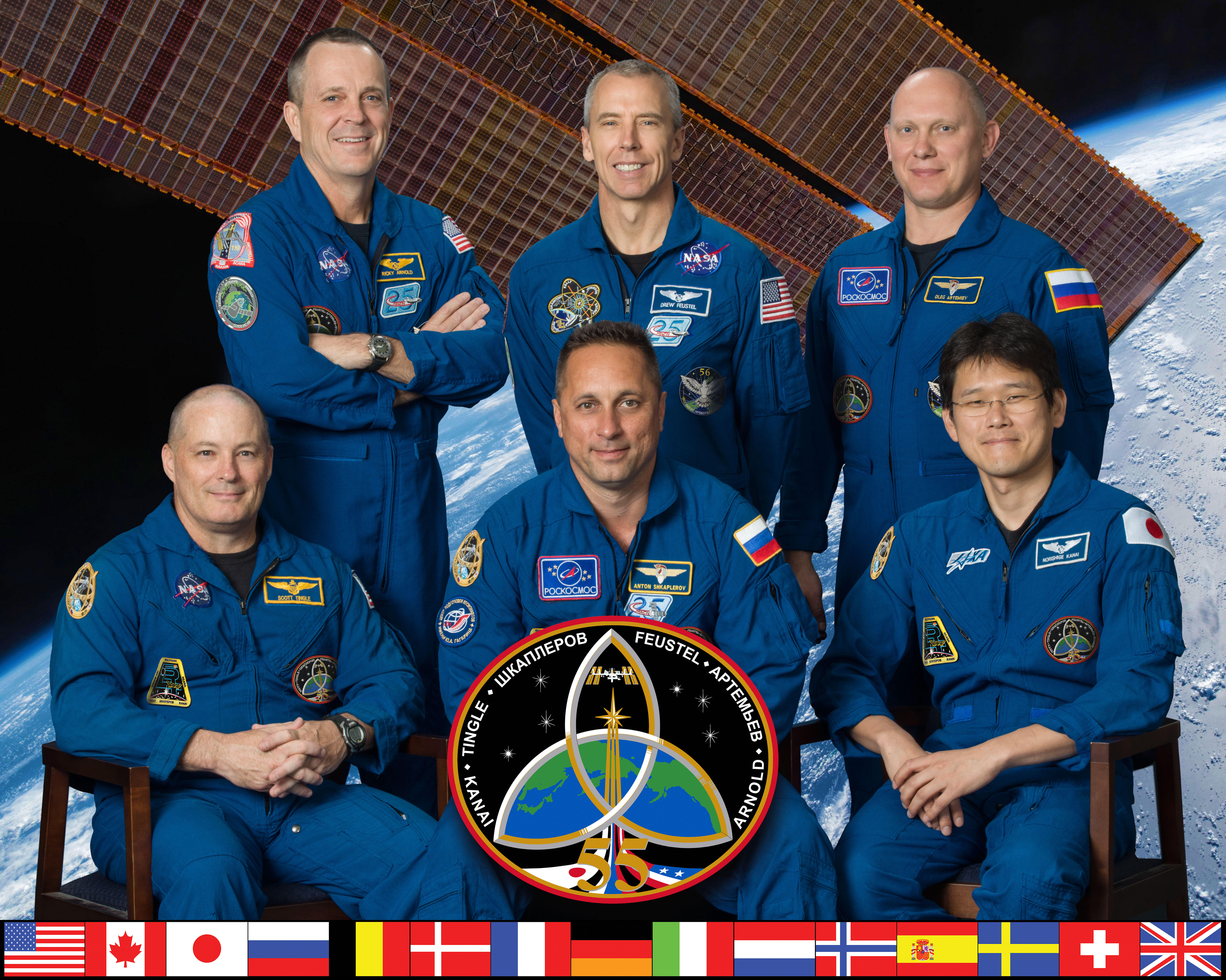 The six-member Expedition 55 crew poses for an official crew portrait at the Johnson Space Center in Houston, Texas. In the front row (from left) are Scott Tingle of NASA, Commander Anton Shkaplerov of Roscosmos and Norishige Kanai of the Japan Aerospace Exploration Agency. In the back row (from left) are NASA astronauts Ricky Arnold and Andrew Feustel and Roscosmos cosmonaut Oleg Artemyev.